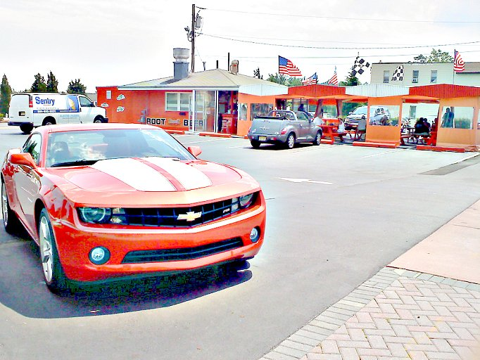 A 2010 Chevy Camaro at Stewarts Drive-in in Tuckerton, New Jersey